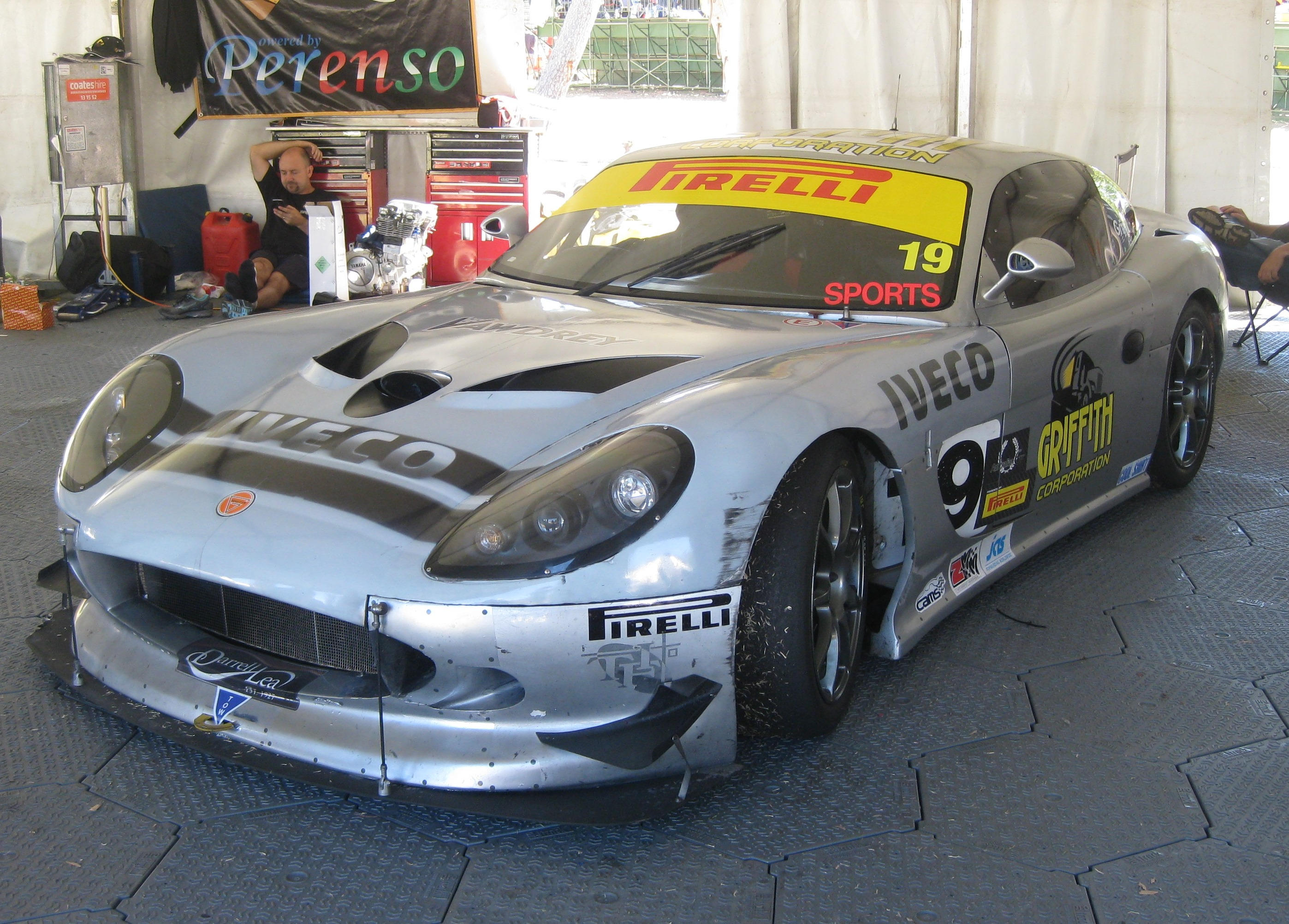 The Ginetta G50 GT4 of Mark Griffith at the Adelaide Parklands Circuit for Round 2 of the 2013 Australian GT Championship